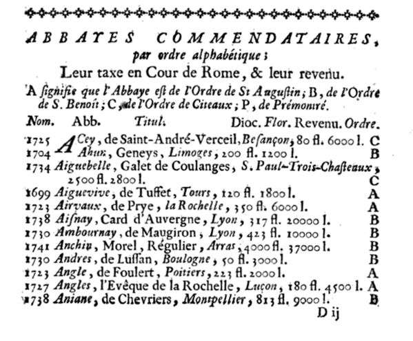 First page of the list of several hundred French commendatory abbeys contained in the Almanach Royal of 1742. From left to right: the year the current commendatory abbot received his benefice; name of the abbey; name of the commendatory abbot; name of the diocese; amount (in florins) paid to Rome for the nomination; the abbey's income (in livres). On the right, the letter "A" stands for Augustinian, "B" for Benedictine, "C" for Cistercian, and "P" for Premonstratensian.